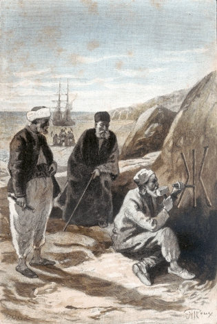 Ilustration from George Roux for novel Jules Verne "The Wonderful Adventures of Captain Antifer".